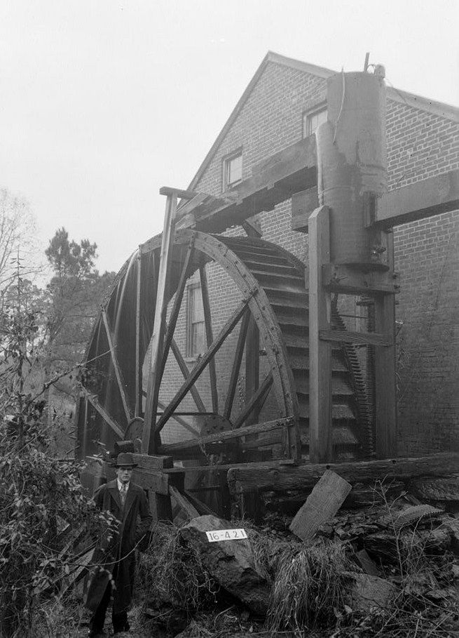 Mill with Water Wheel, Aderholdt's Mill Road, Anniston vicinity (Calhoun County, Alabama) cropped This file comes from the Historic American Buildings Survey (HABS), Historic American Engineering Record (HAER) or Historic American Landscapes Survey (HALS). These are programs of the National Park Service established for the purpose of documenting historic places. Records consist of measured drawings, archival photographs, and written reports. When reusing please credit: Library of Congress, Prints & Photographs Division, ALA,8-ANNI.V,1-5 This tag does not indicate the copyright status of the attached work. A normal copyright tag is still required. See Commons:Licensing for more information. This work is in the public domain in the United States because it is a work prepared by an officer or employee of the United States Government as part of that person’s official duties under the terms of Title 17, Chapter 1, Section 105 of the US Code. See Copyright. Note: This only applies to original works of the Federal Government and not to the work of any individual U.S. state, territory, commonwealth, county, municipality, or any other subdivision. This template also does not apply to postage stamp designs published by the United States Postal Service since 1978. (See § 313.6(C)(1) of Compendium of U.S. Copyright Office Practices). It also does not apply to certain US coins; see The US Mint Terms of Use. This file has been identified as being free of known restrictions under copyright law, including all related and neighboring rights.